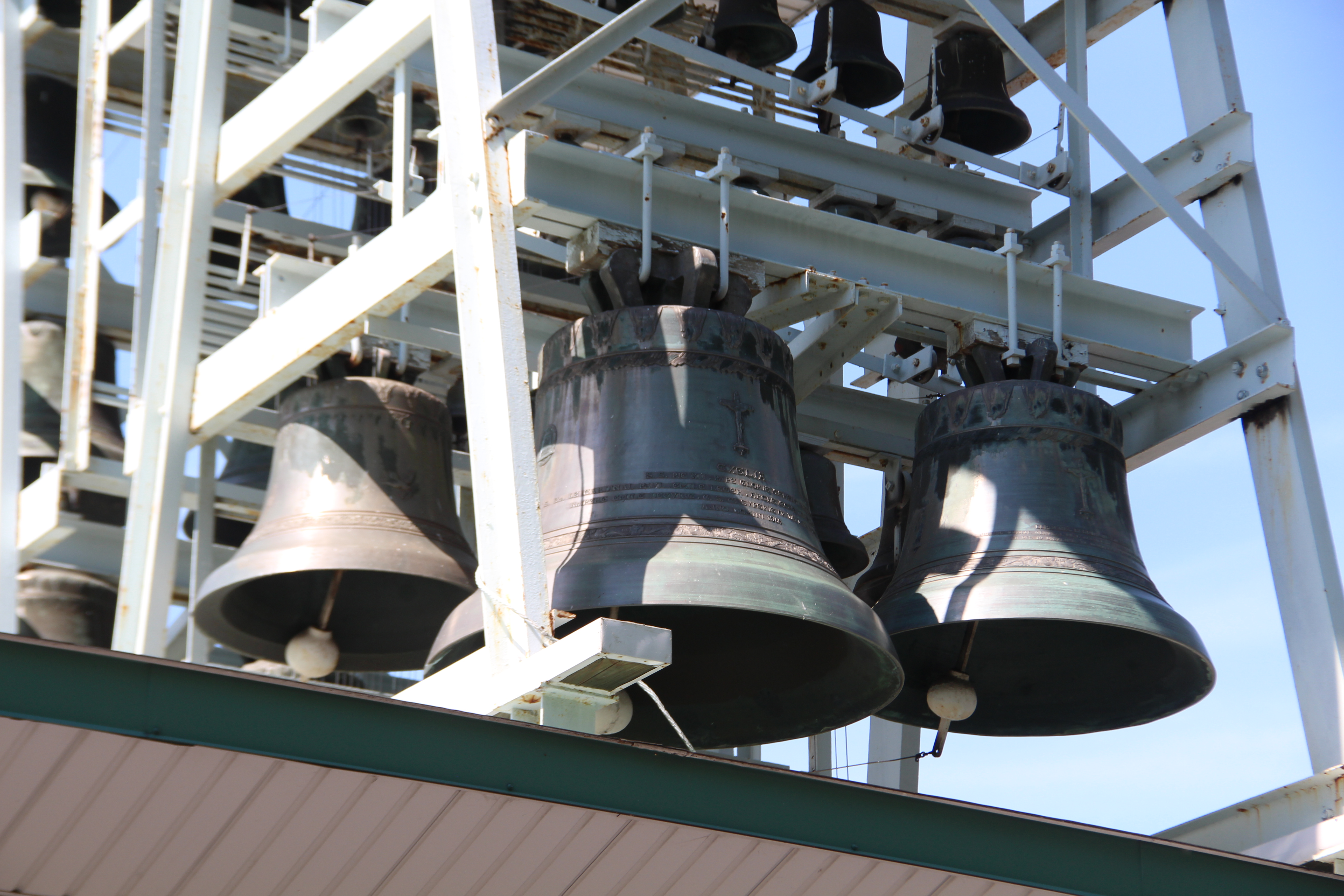 Saint Joseph's Oratory of Mount-Royal, carillon in 2017